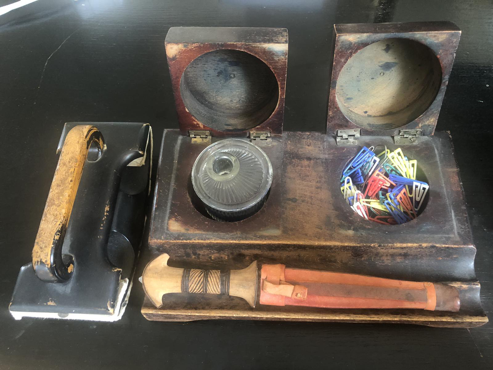 Inkpot of professor Fehim Bajraktarevic. It can be found in Society for Culture, Art and International Cooperation Adligat in Belgrade.